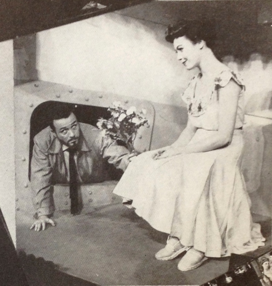 Judy Tyler as Suzy and William Johnson as Doc in Act II of Pipe Dream